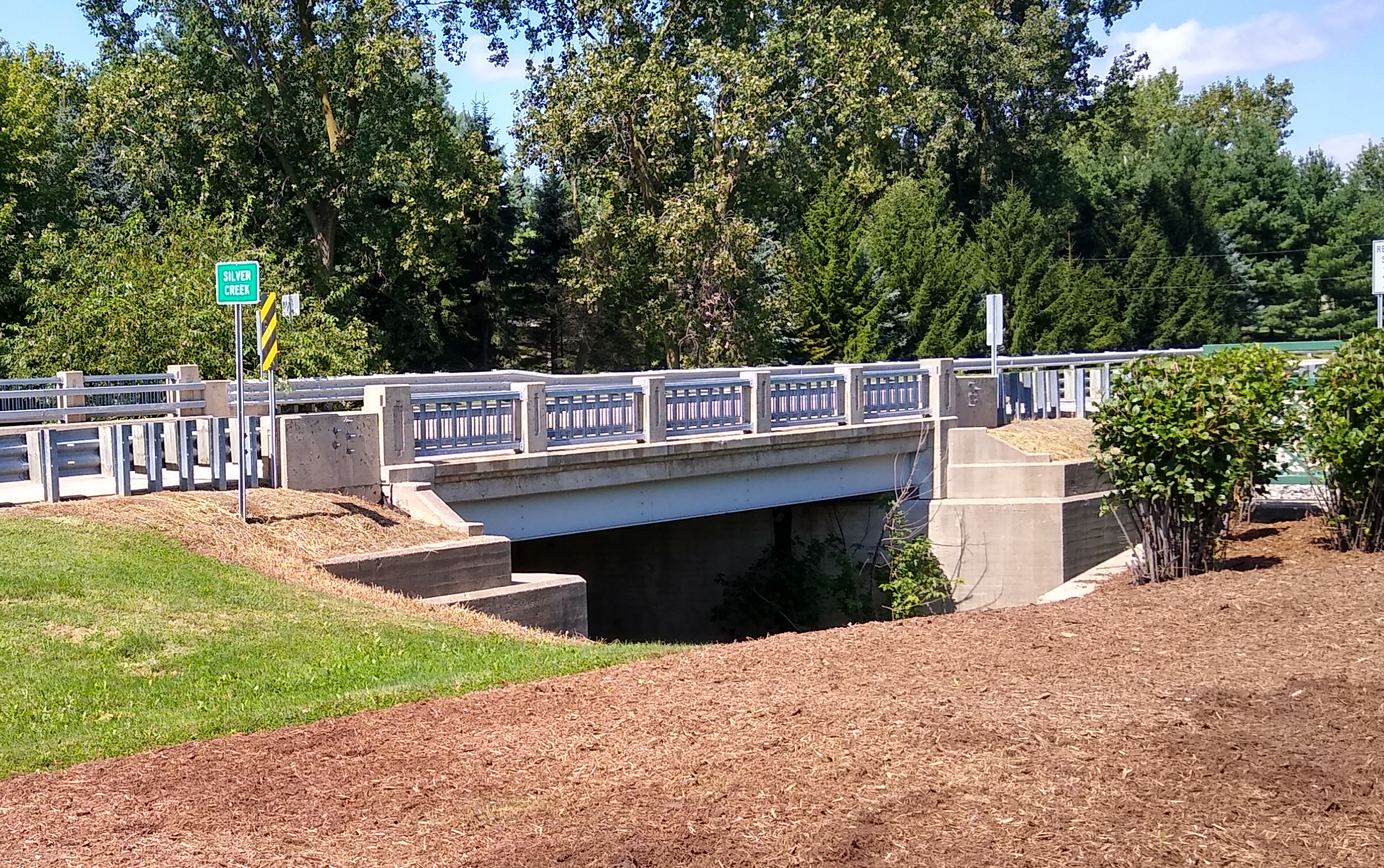 The Murray D. Van Wagoner Memorial Bridge bridge which carries M-156 over Silver Creek in Morenci, Michigan. It was listed on the National Register of Historic Places in 2000.